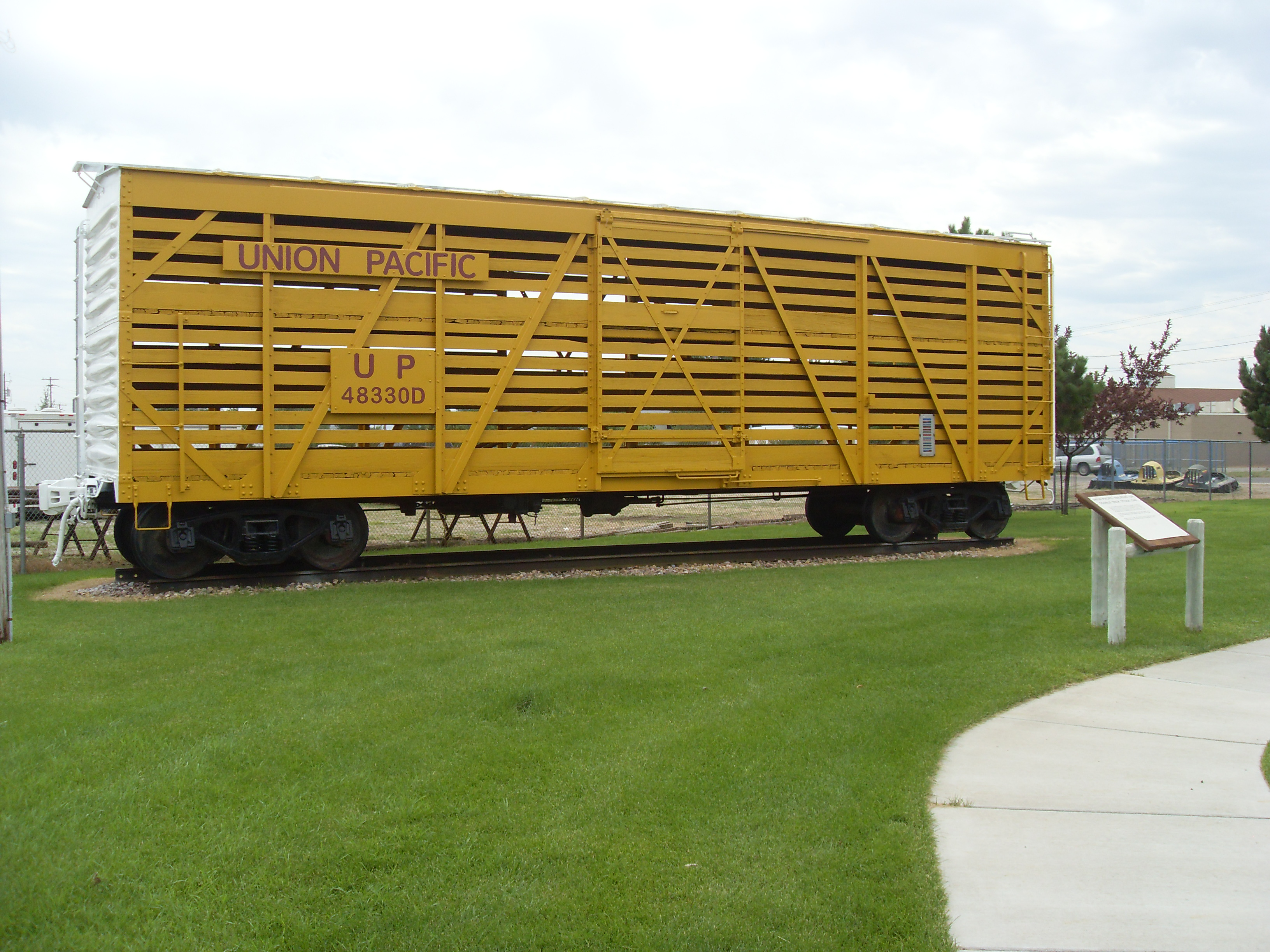 Stock car - UP #48330D part of the exhibition of the Douglas Railroad Interpretive Center in Douglas, Wyoming